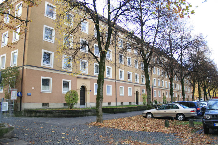 Apartment complex of the Agfa-Commando (Außenlager Agfa-Kamerawerke) in 1944-1945, situation in 2017